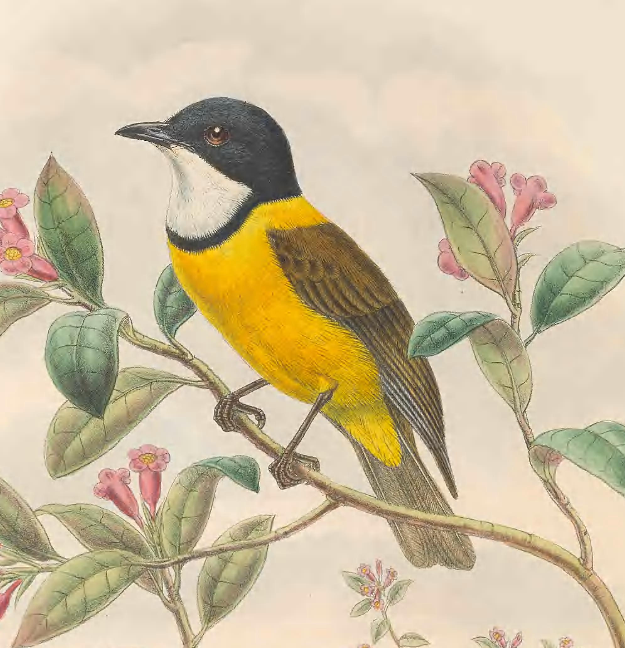 Pachycephala collaris in The birds of New Guinea and the adjacent Papuan islands, including many new species recently discovered in Australia. v.3 (Plate 17).